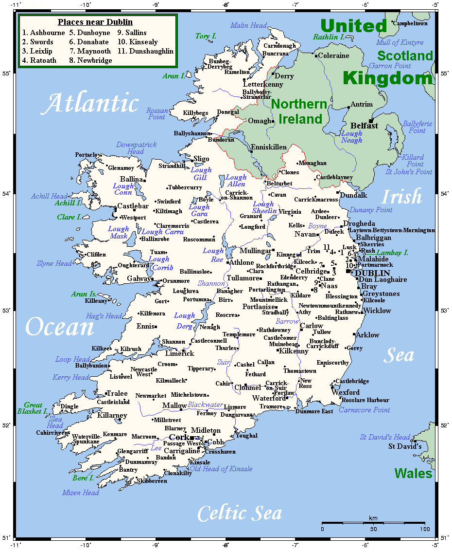 A map of Ireland showing the Republic's 100 biggest cities and main towns along with selected other places.